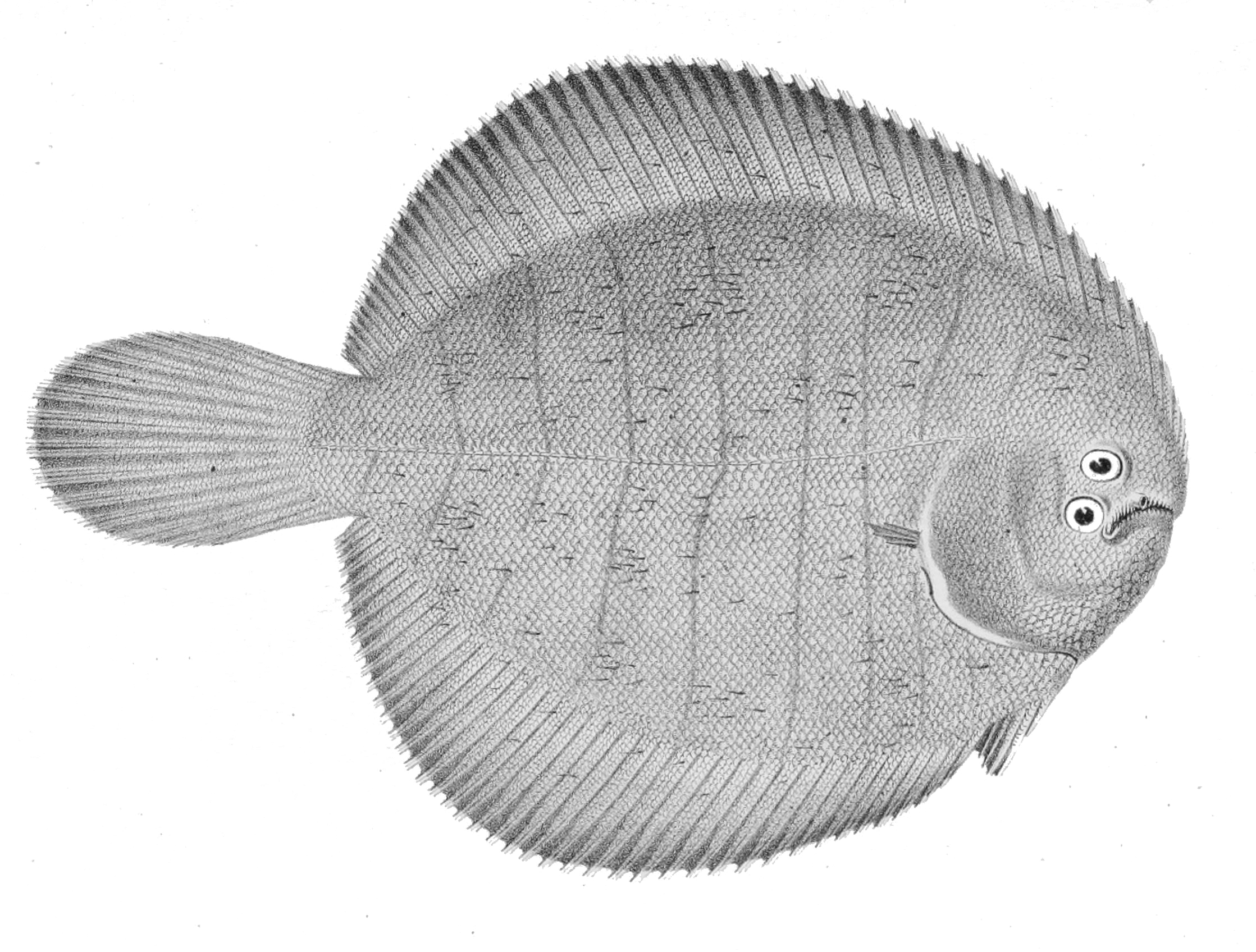 Australoheros facetus